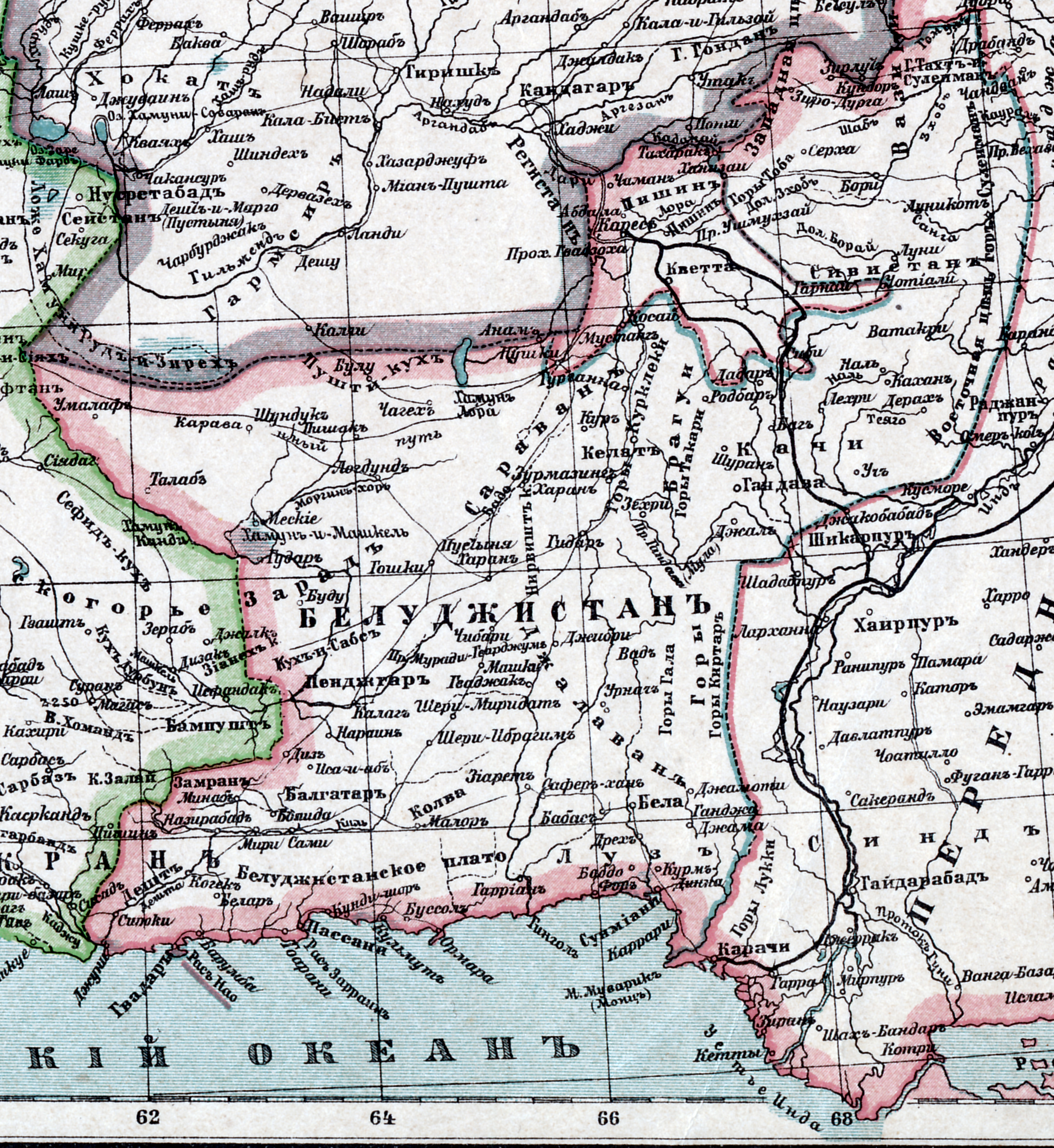 Map of Balochistan, the end of the nineteenth century.